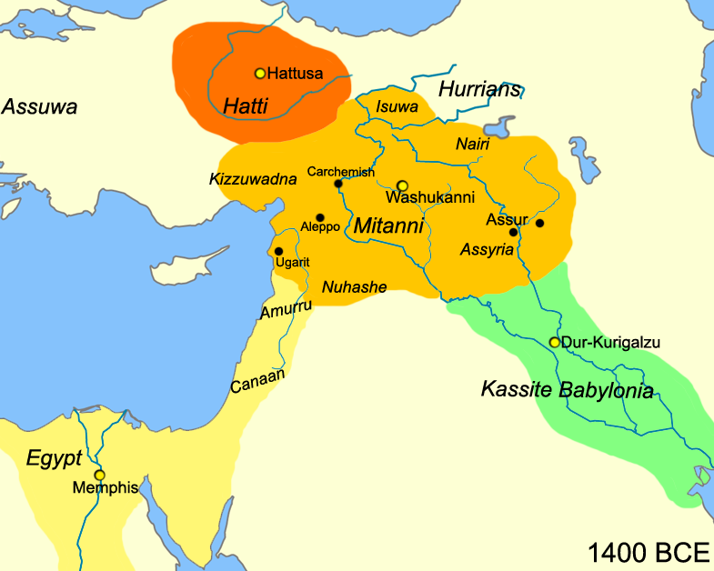 Map of the near east circa 1400 BCE.